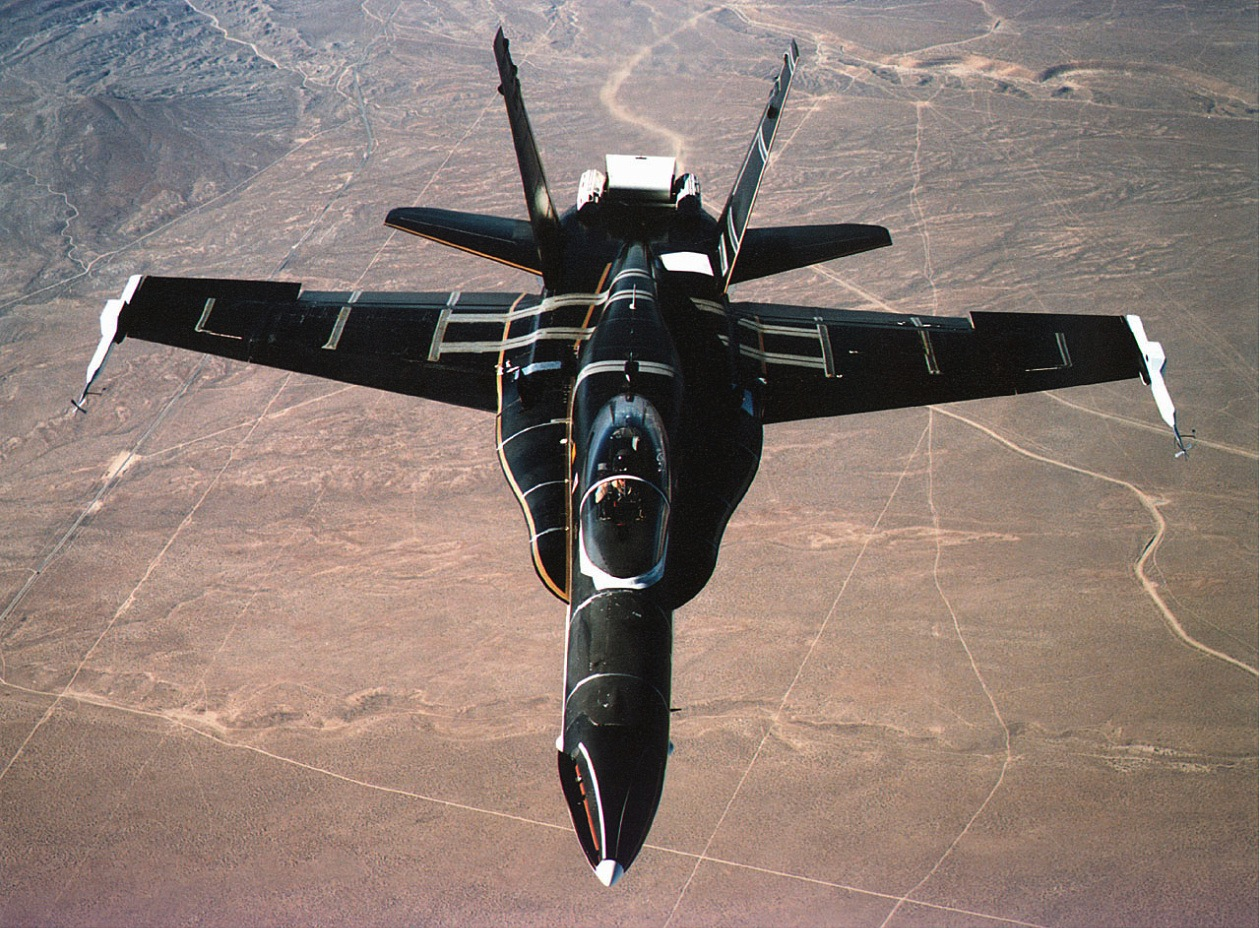 NASA's F-18 from the Dryden Flight Research Center, Edwards, California, soars over the Mojave Desert while flying the third and final phase of the HARV (High Alpha Research Vehicle) program. A set of control surfaces called strakes were installed in the nose of the aircraft. The strakes, outlined in gold and white, provided improved yaw control at steep angles of attack. Normally folded flush, the units -- four feet long and six inches wide -- can be opened independently to interact with the nose vortices to produce large side forces for control. Testing involved evaluation of the strakes by themselves as well as combined with the aircraft's Thrust Vectoring System. The strakes were designed by NASA's Langley Research Center, then installed and flight tested at Dryden.